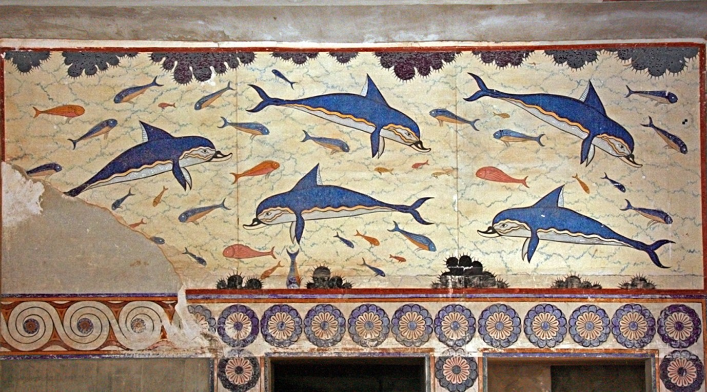 Delphins of Knossos